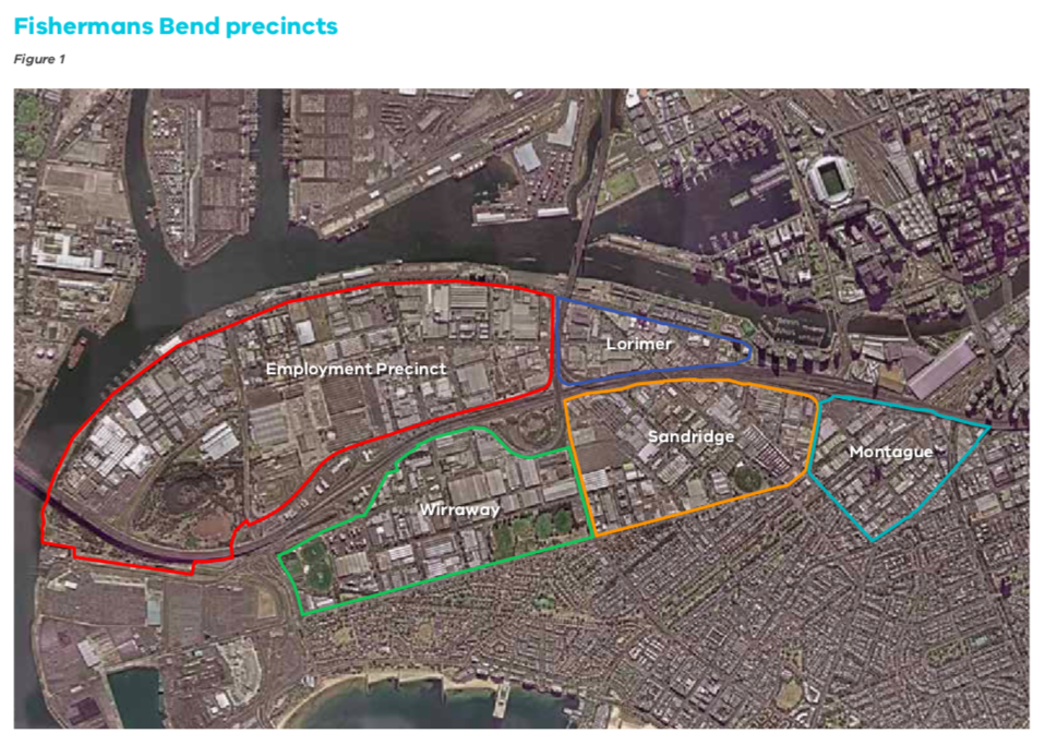 Overview of the new suburbs as part of the Fishermans Bend urban renewal precinct in Melbourne as part of their 2018 Framework plan for the area